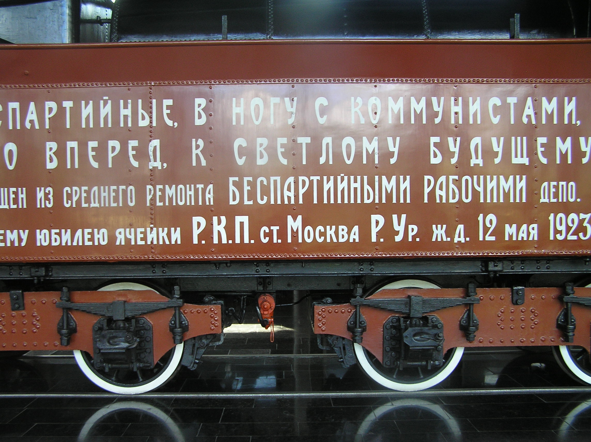 Tender and inscription of U-127 Lenin's Locomotive (a 4-6-0 oil burning compound locomotive) at the Museum of the Moscow Railway at Paveletsky Rail Terminal